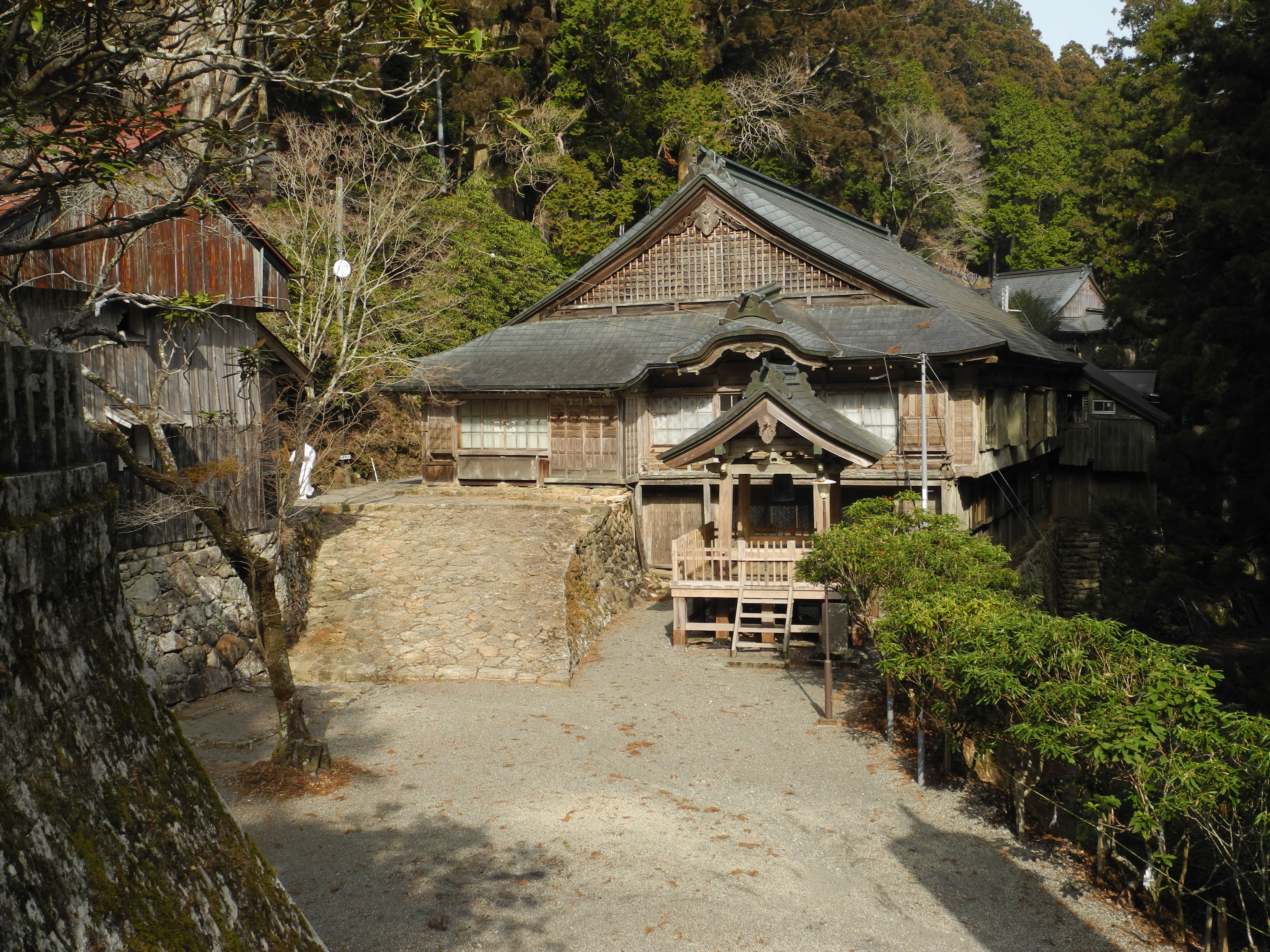 Tamaki Jinja, Totsukawa, Nara